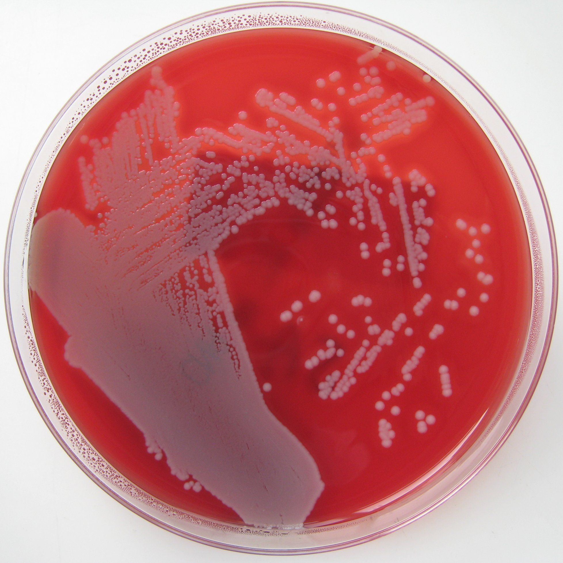 Staphylococcus aureus growing on Columbia horse blood agar